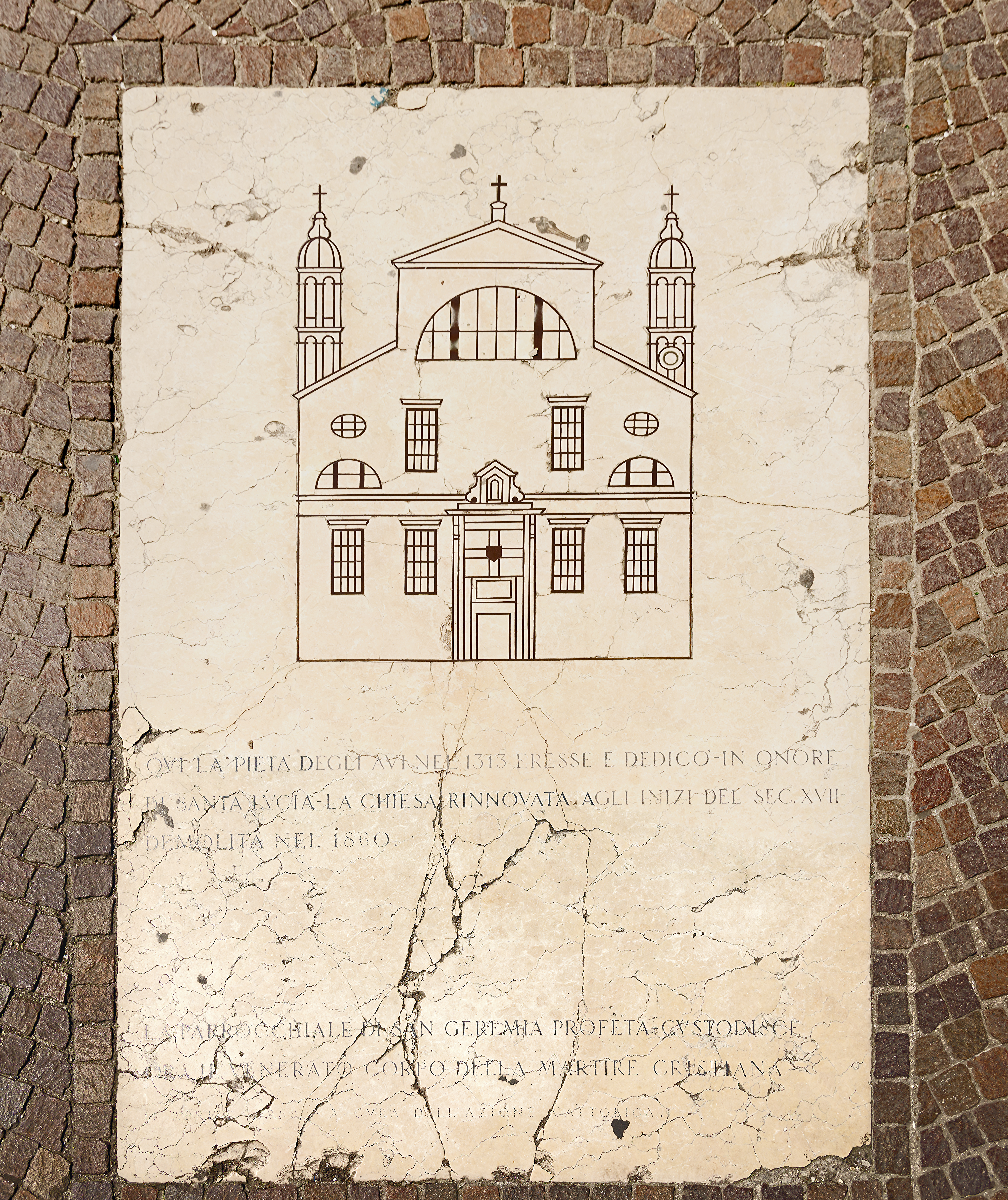 Public Square outside Train Station, in Venice. Memorial plaque on the location of the :en:Santa Lucia, Venice |Santa Lucia church .